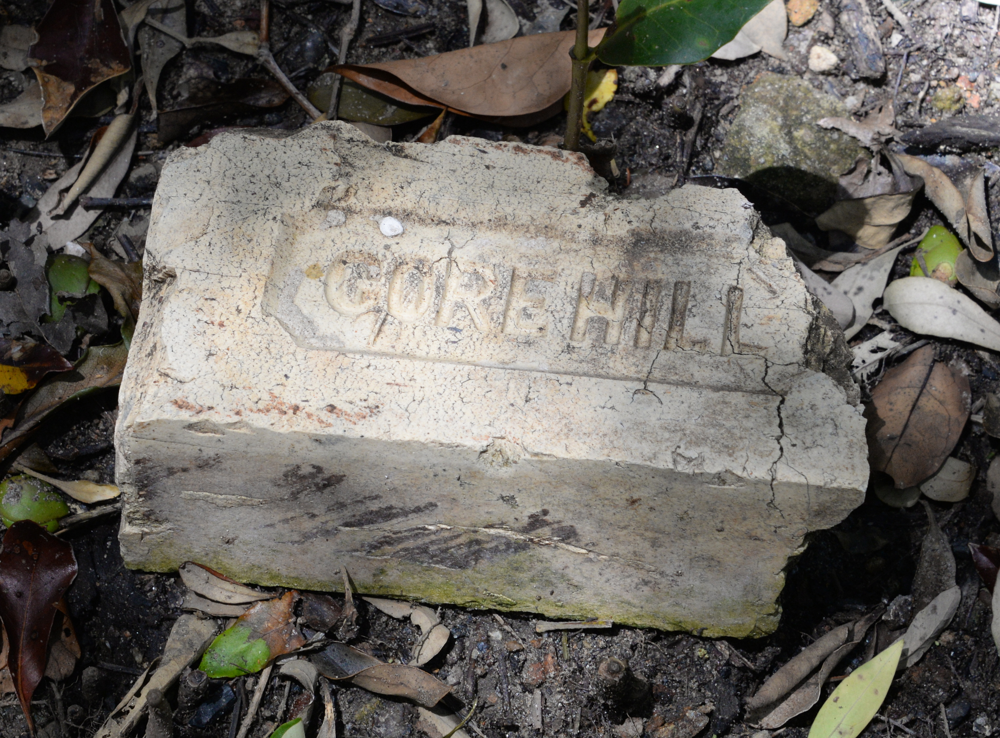 Old brick from Gore Hill Brickworks found at Buffalo Creek, Lane Cove River tributary, Sydney